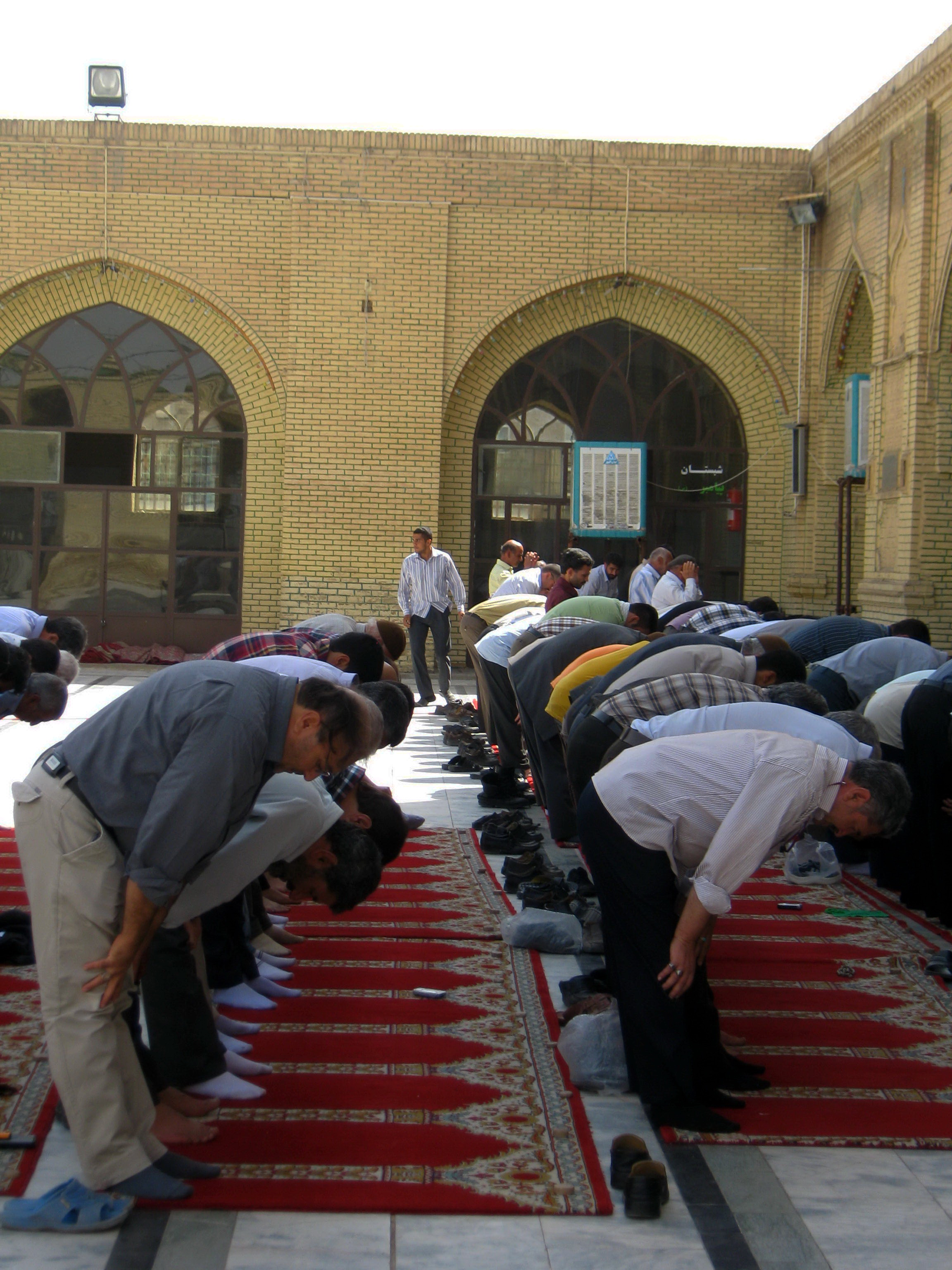 Prayers of Noon - Grand Mosque of Nishapur -September 27 2013